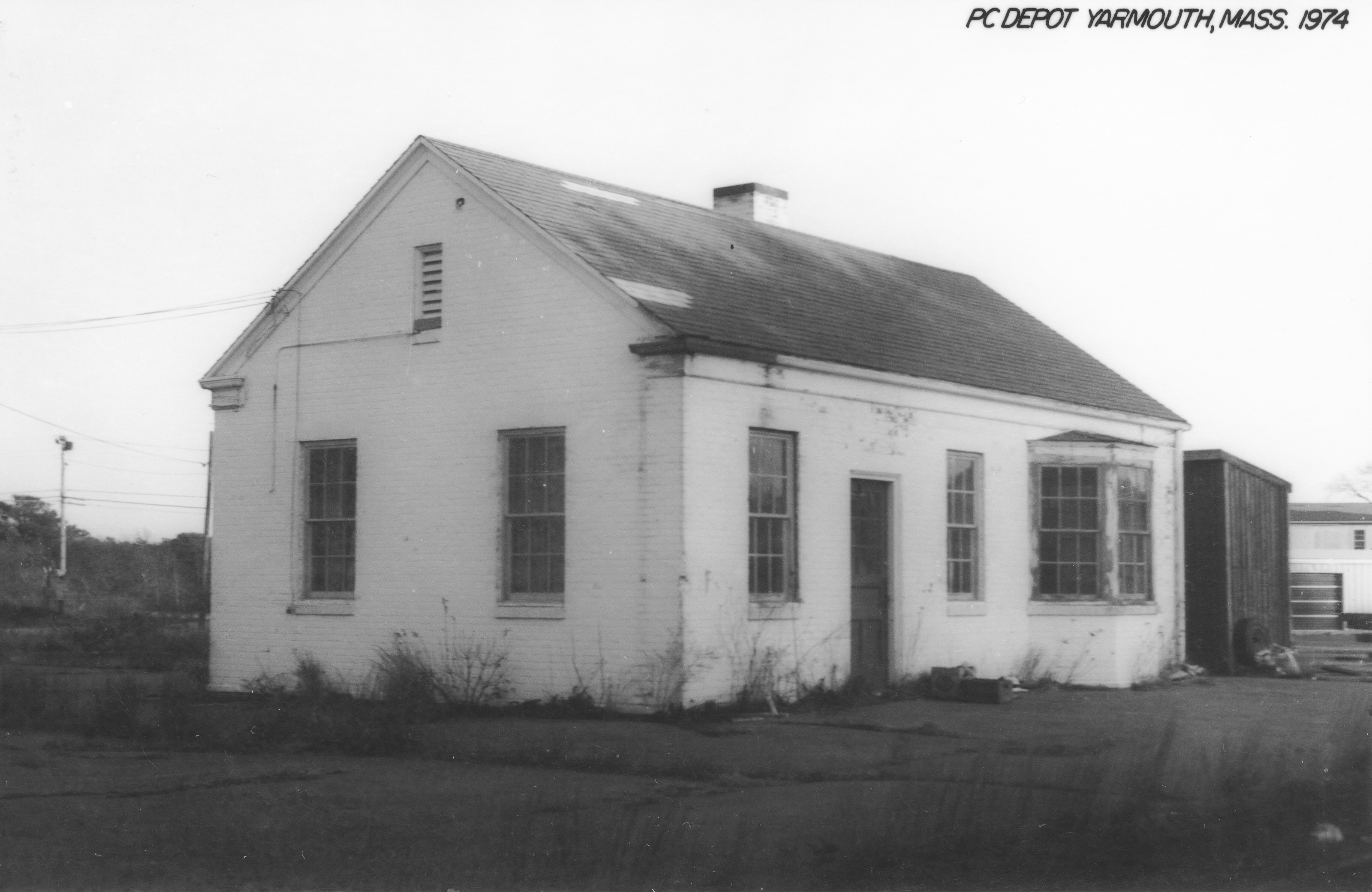 An photo post card image of the former Yarmouth, Massachusetts train station on Cape Cod.